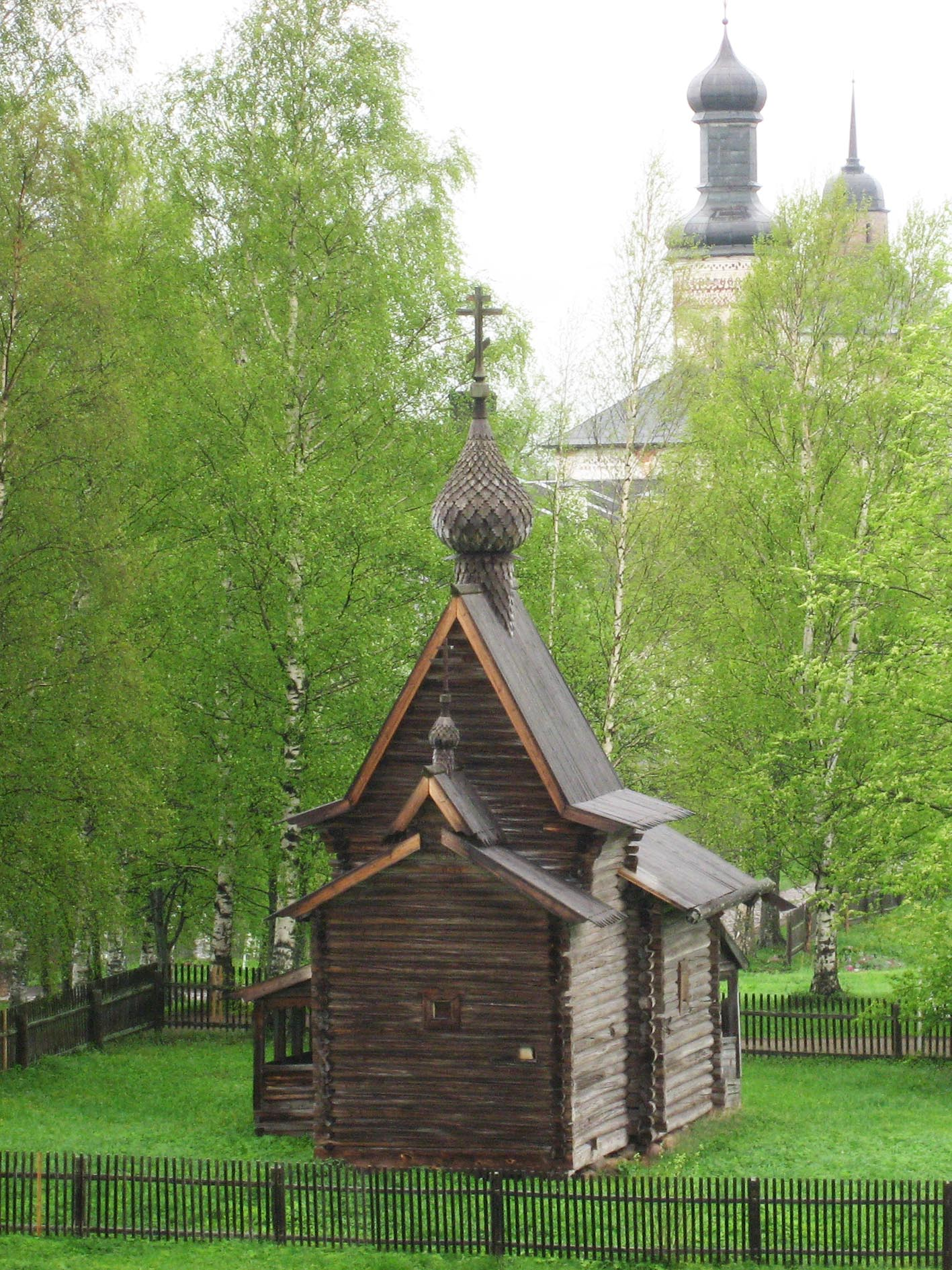 Church_of_the_Deposition_from_the_Borodavа. It is in the Kirillo-Belozersky Monastery now, in the town of Kirillov, Vologda oblast, Russia.